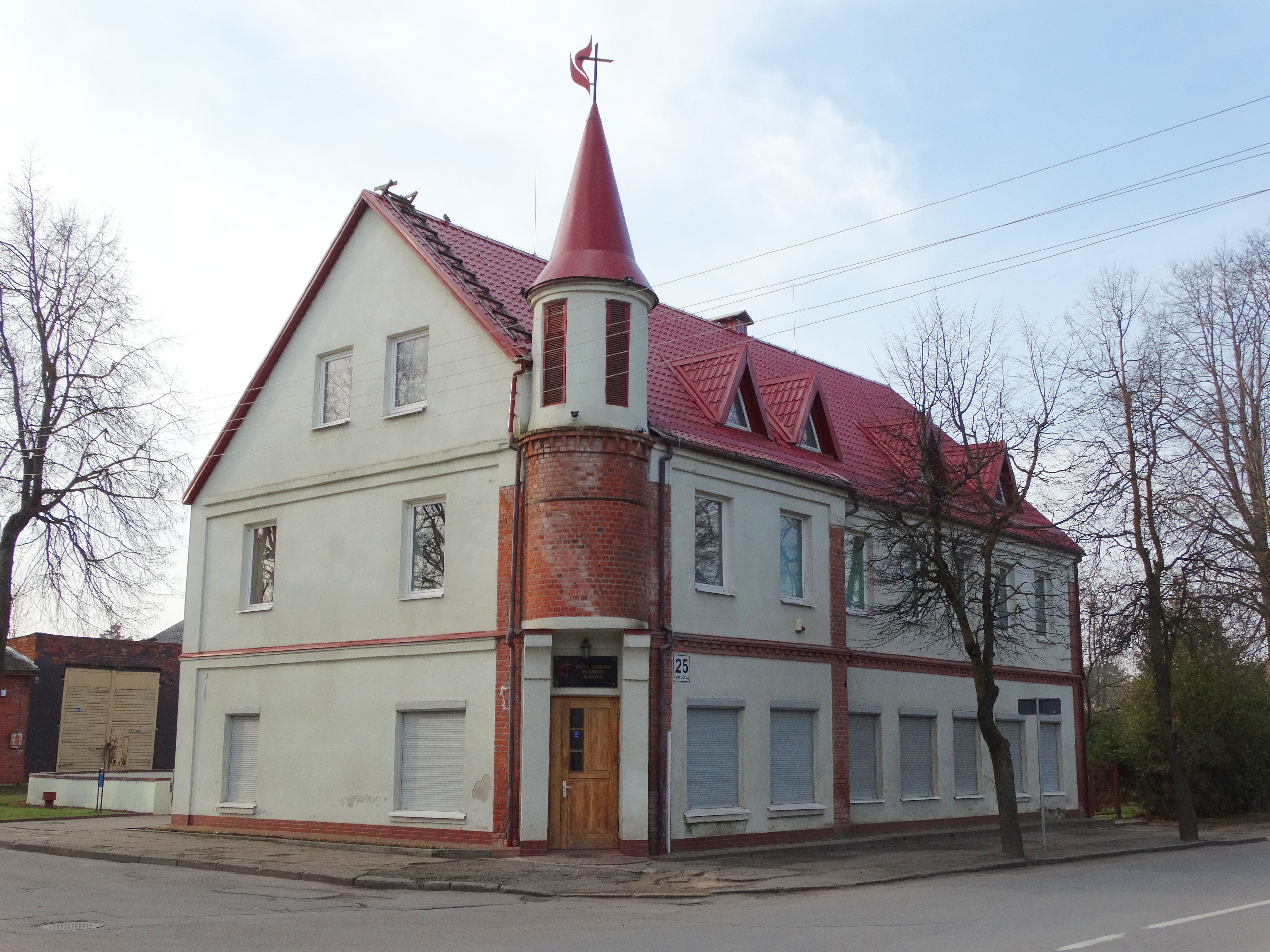 Methodist church, Biržai, Lithuania